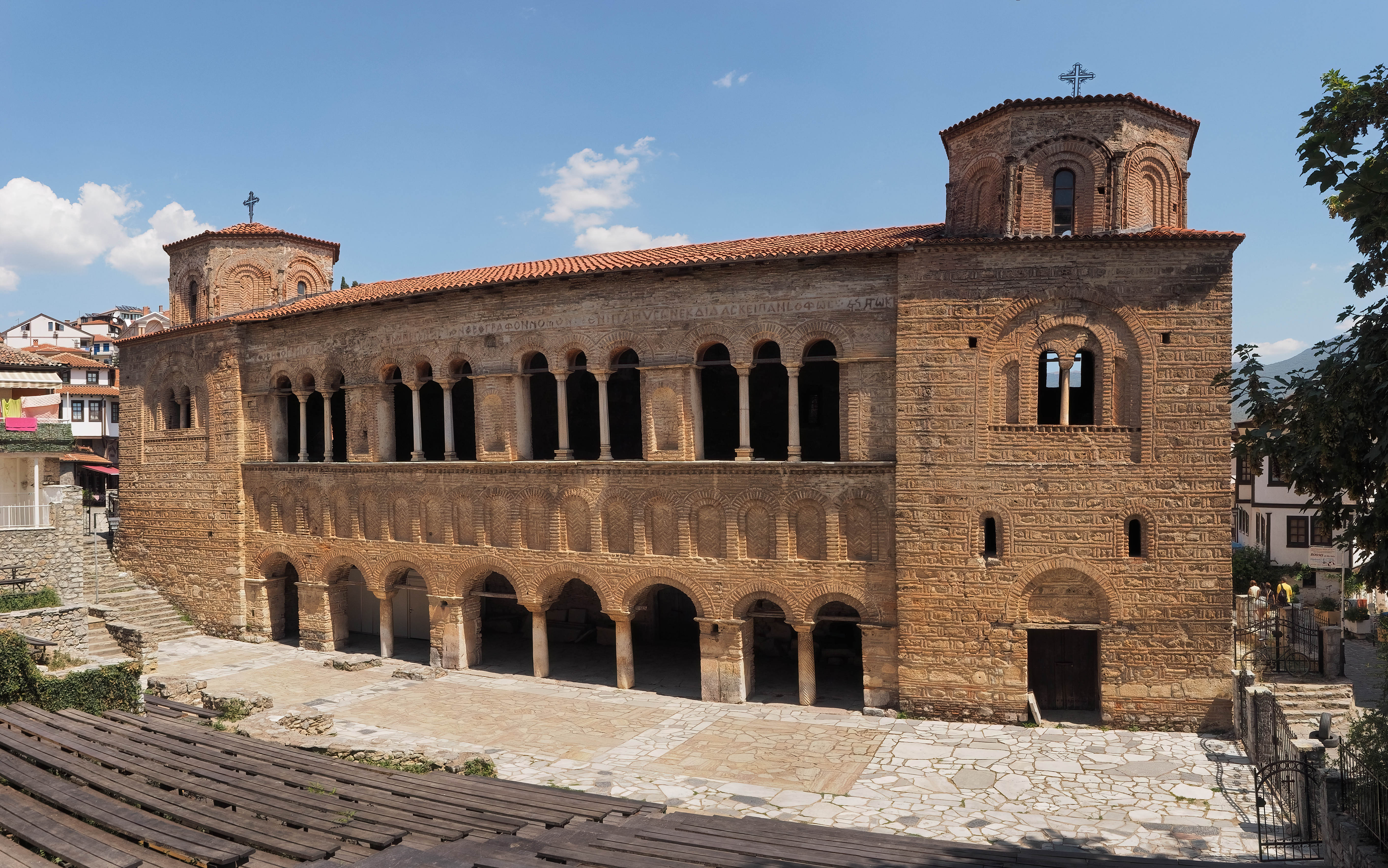 Church of St. Sophia, rear courtyard, Ohrid, Republic of Macedonia Српски (ћирилица): Света Софија, Охрид, Република Македонија This photograph was taken with an Olympus E-M1